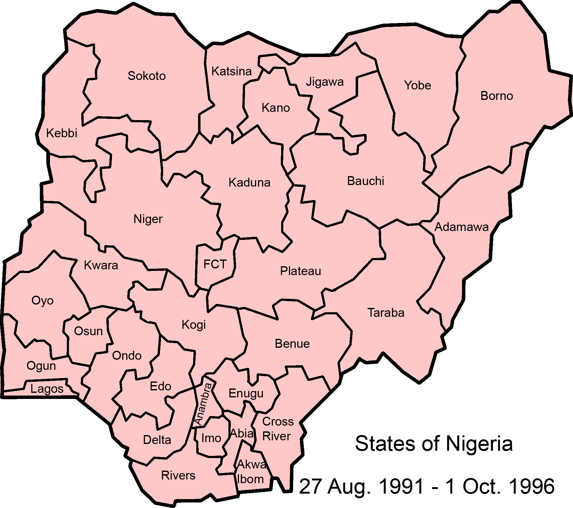 Map of Nigerian states, 27 August 1991 - .